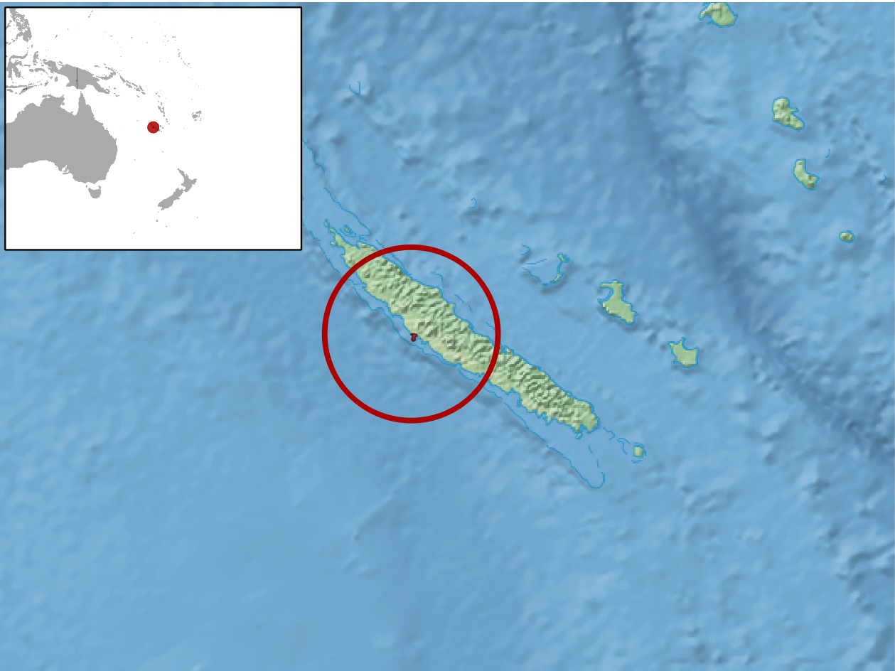 geographic distribution of Nannoscincus hanchisteus